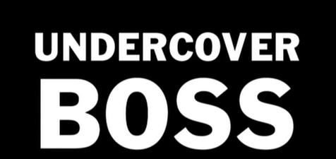 Undercover Boss logo